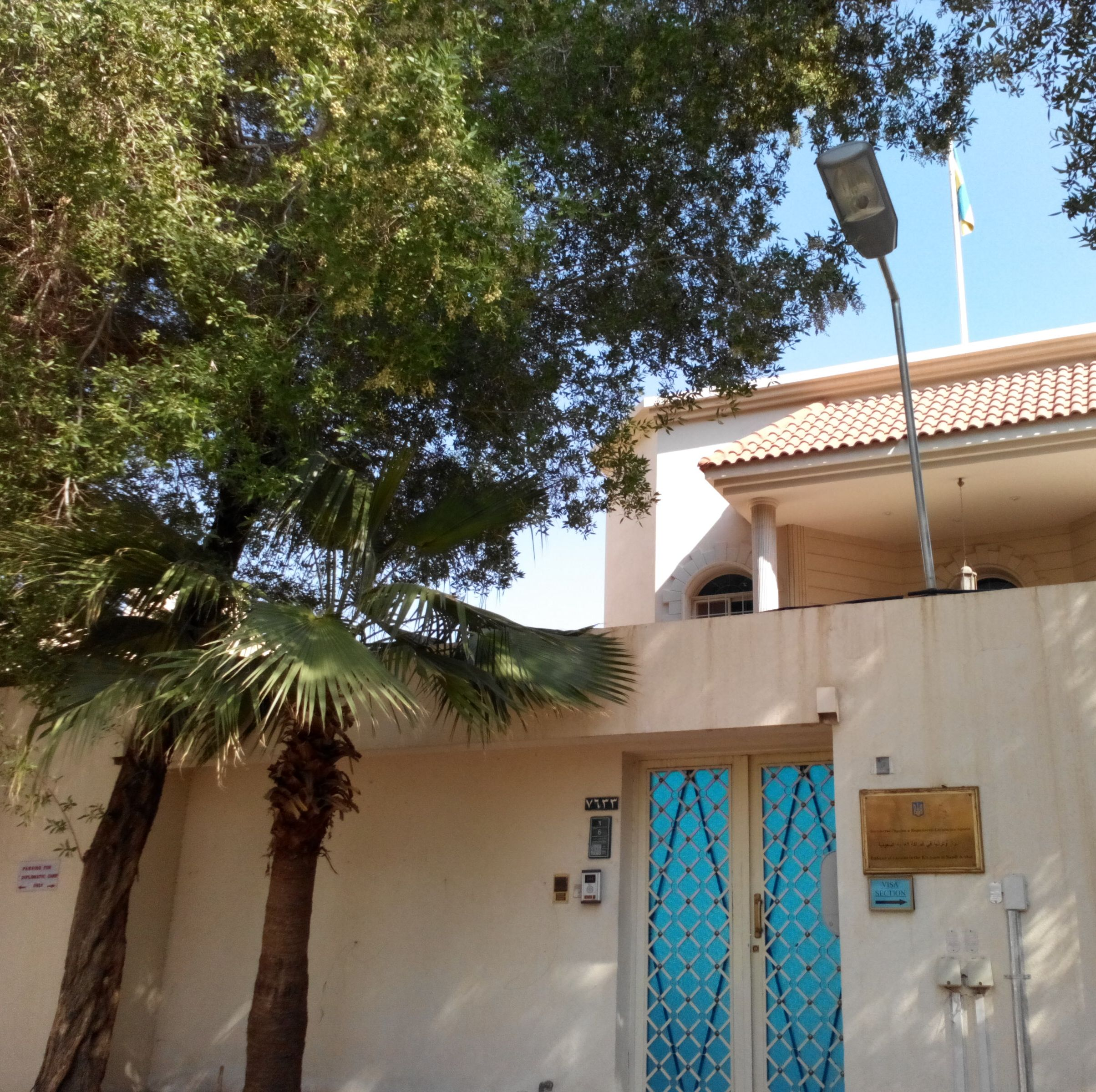 Embassy of Ukraine to the Kingdom of Saudi Arabia